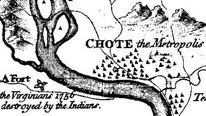 Detail of Henry Timberlake's 1765 "Draught of the Cherokee Country," showing the location and layout of the Cherokee town of Chota. The Chota site is now submerged under Tellico Lake in Monroe County, Tennessee, in the southeastern United States. The "Virginia Fort," built in 1756 but never garrisoned, is at the lower left. Tanasi ("Tennessee") is at the lower right, separated by the stream.